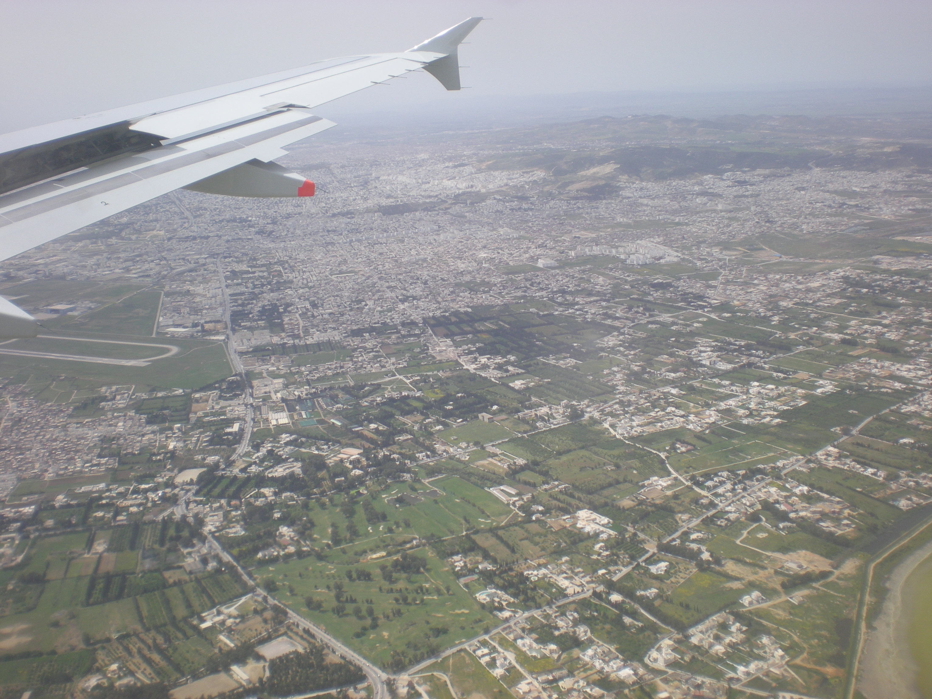 Aerial photo of La Soukra, Tunis